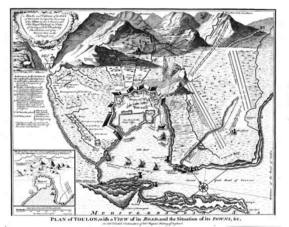 Map of the siege of Toulon (1707